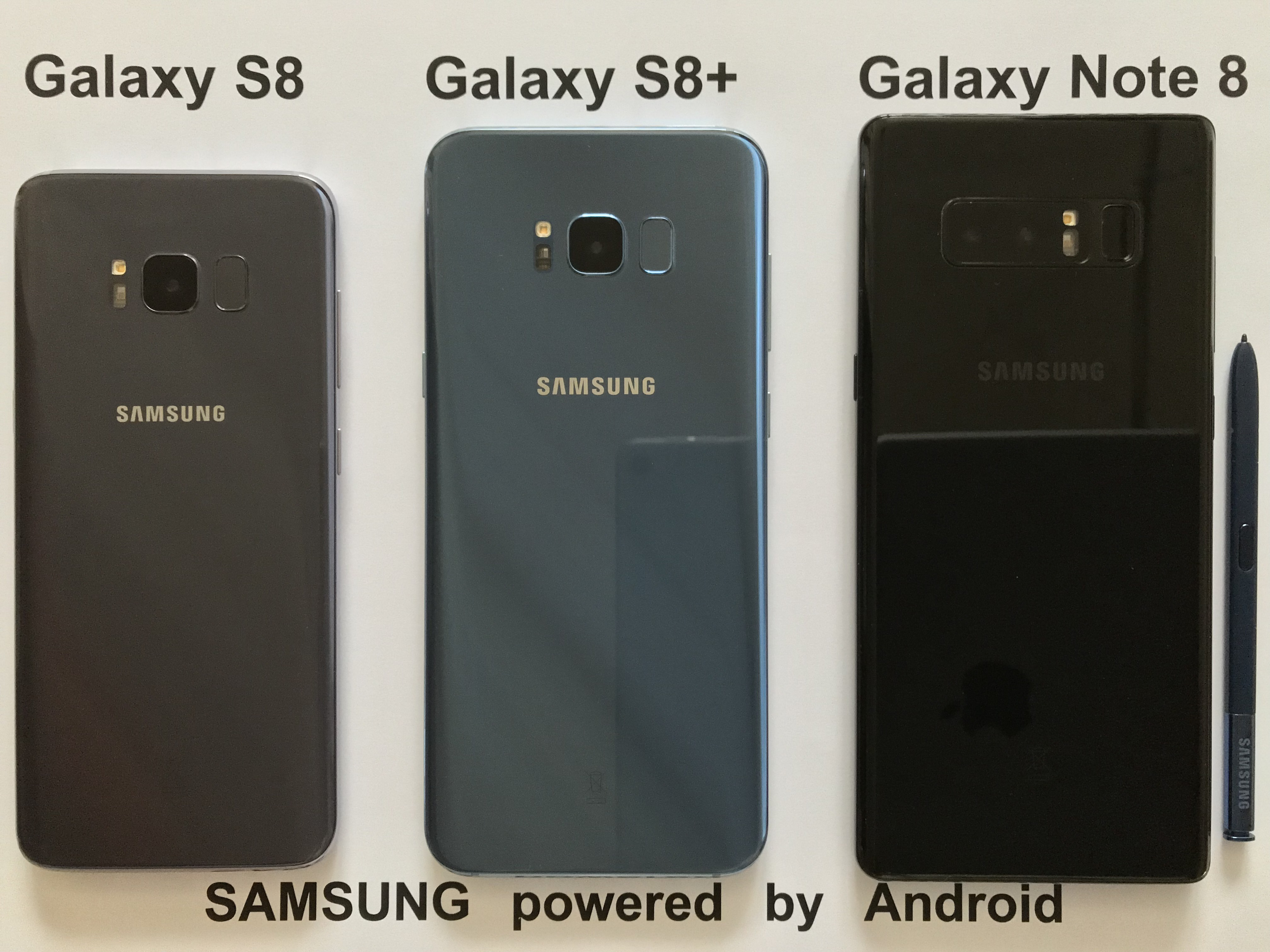 Samsung Galaxy S8 Samsung Galaxy S8+ Samsung Galaxy Note 8